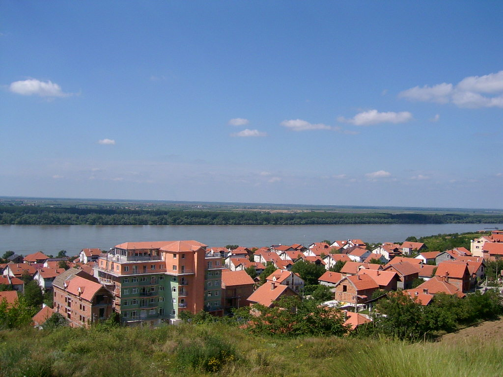 Picture of Višnjica, urban neighbourhood in Belgrade, Serbia.